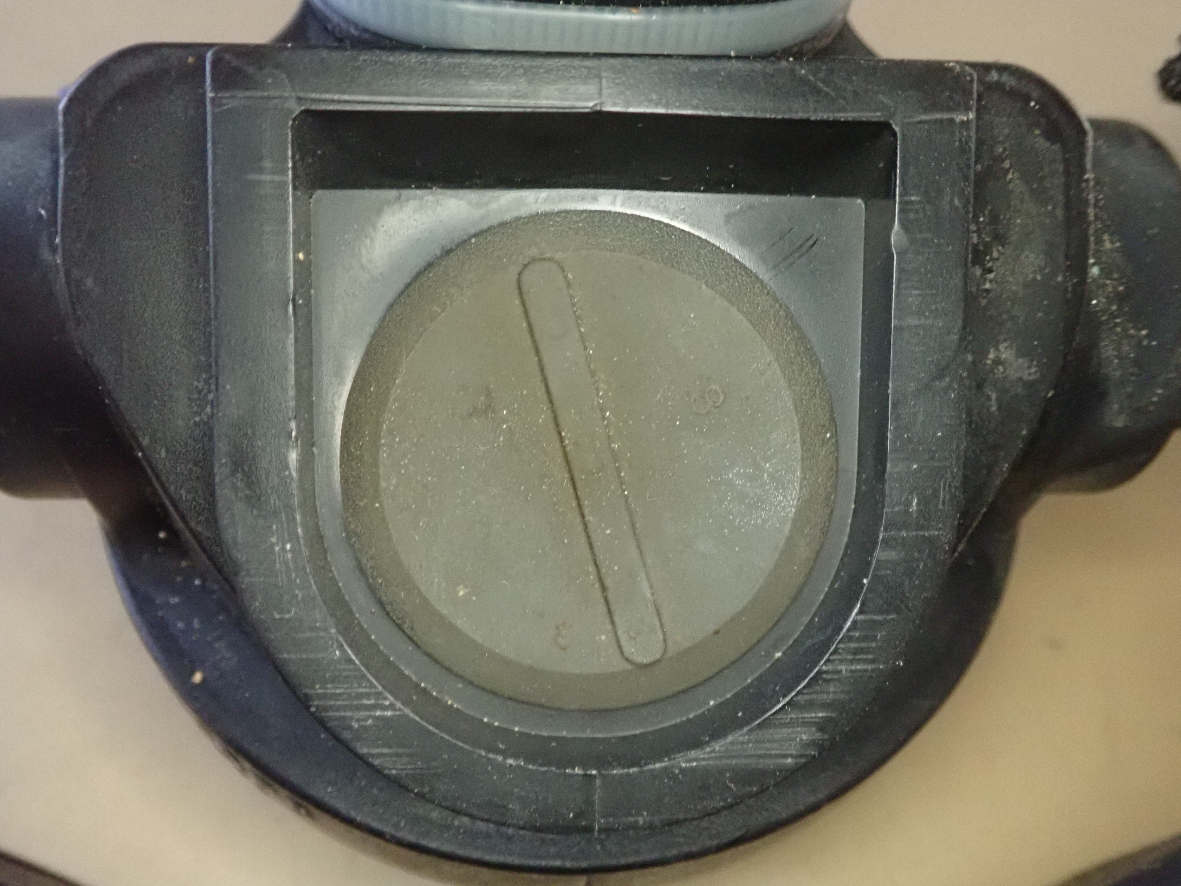 Mushroom exhaust valve of single hose demand valve visible after removing exhaust ducting